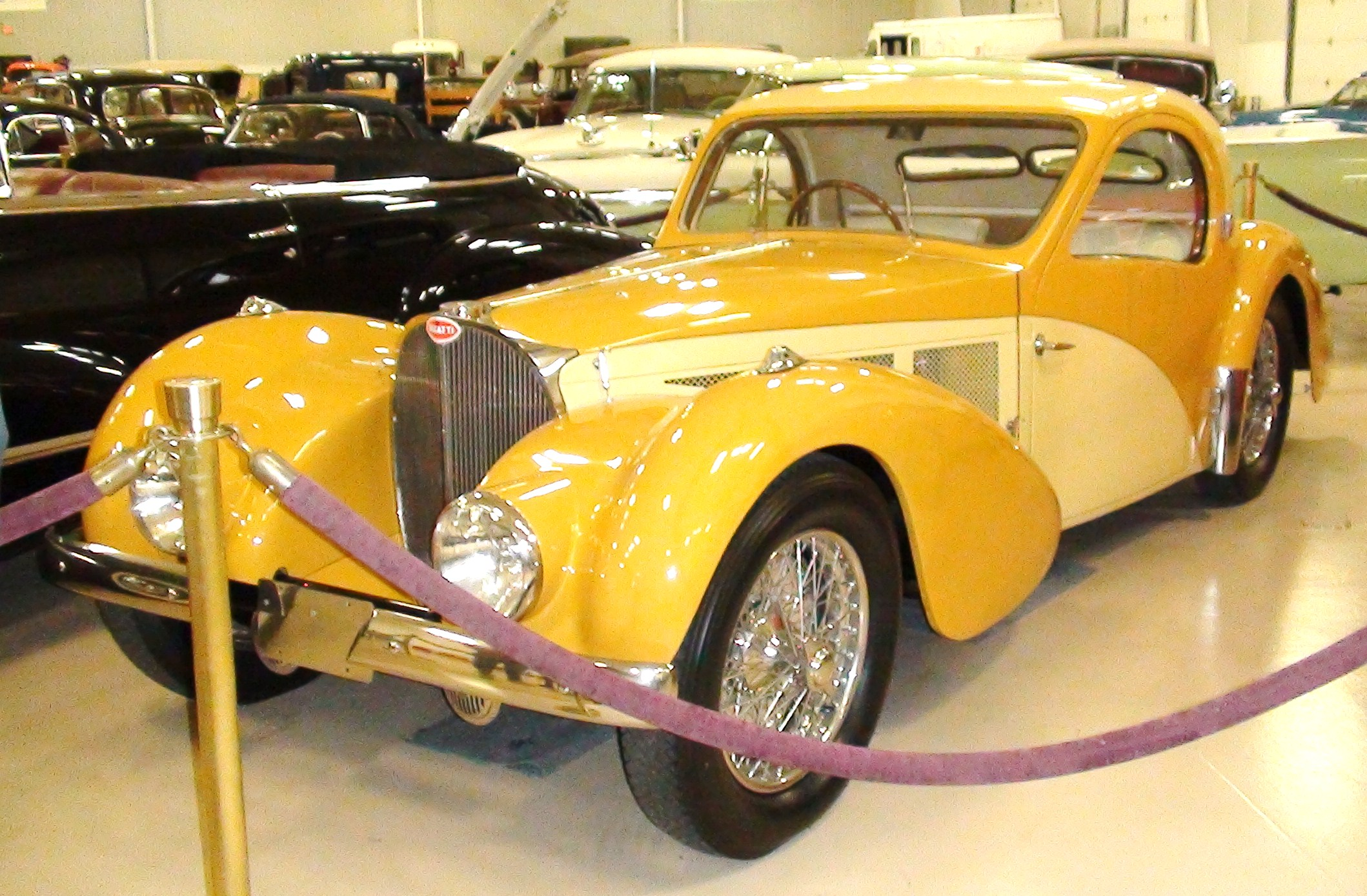 1937 Bugatti Type 57SC Atalante won Best of Show at Pebble Beach in the mid 1970's, it will be freshened up and perhaps will win Best of Show again at some point.